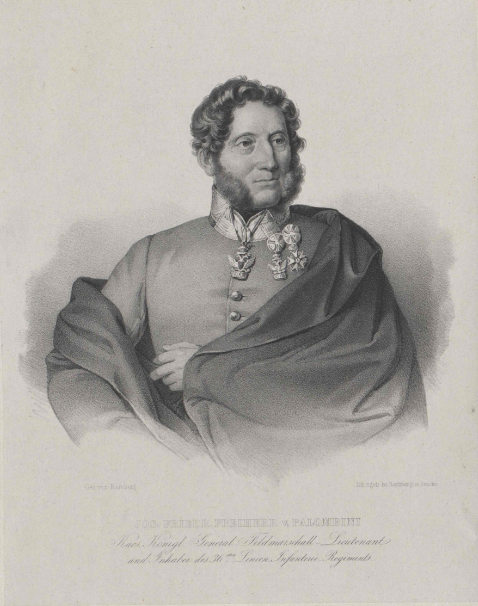 Sepia print of a man with wavy hair and mutton-chop sideburns. He wears a gray military uniform with two awards pinned on his upper left chest. The uniform is partly covered by a darker cloak. The label reads "JOS FRIEDR V PALOMBINI KuK General Feldmarschall Lieutenant und Inhaber der 36 Linen Infanterie Regiment". At lower left a label reads, "Ger von Ramburg".